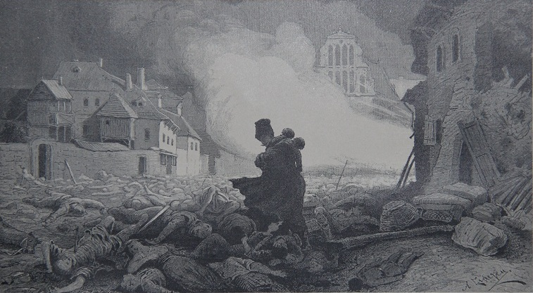 Artwork by Opanas Slastion for book by Taras Shevchenko "Haydamaky" 1886